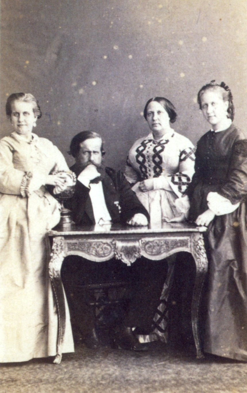 The Brazilian Imperial family around 1863. From left to right: Leopoldina, Pedro II, Teresa Cristina and Isabel.